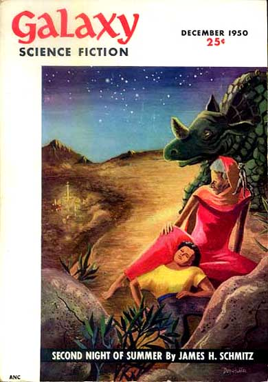 Cover of Galaxy, December 1950